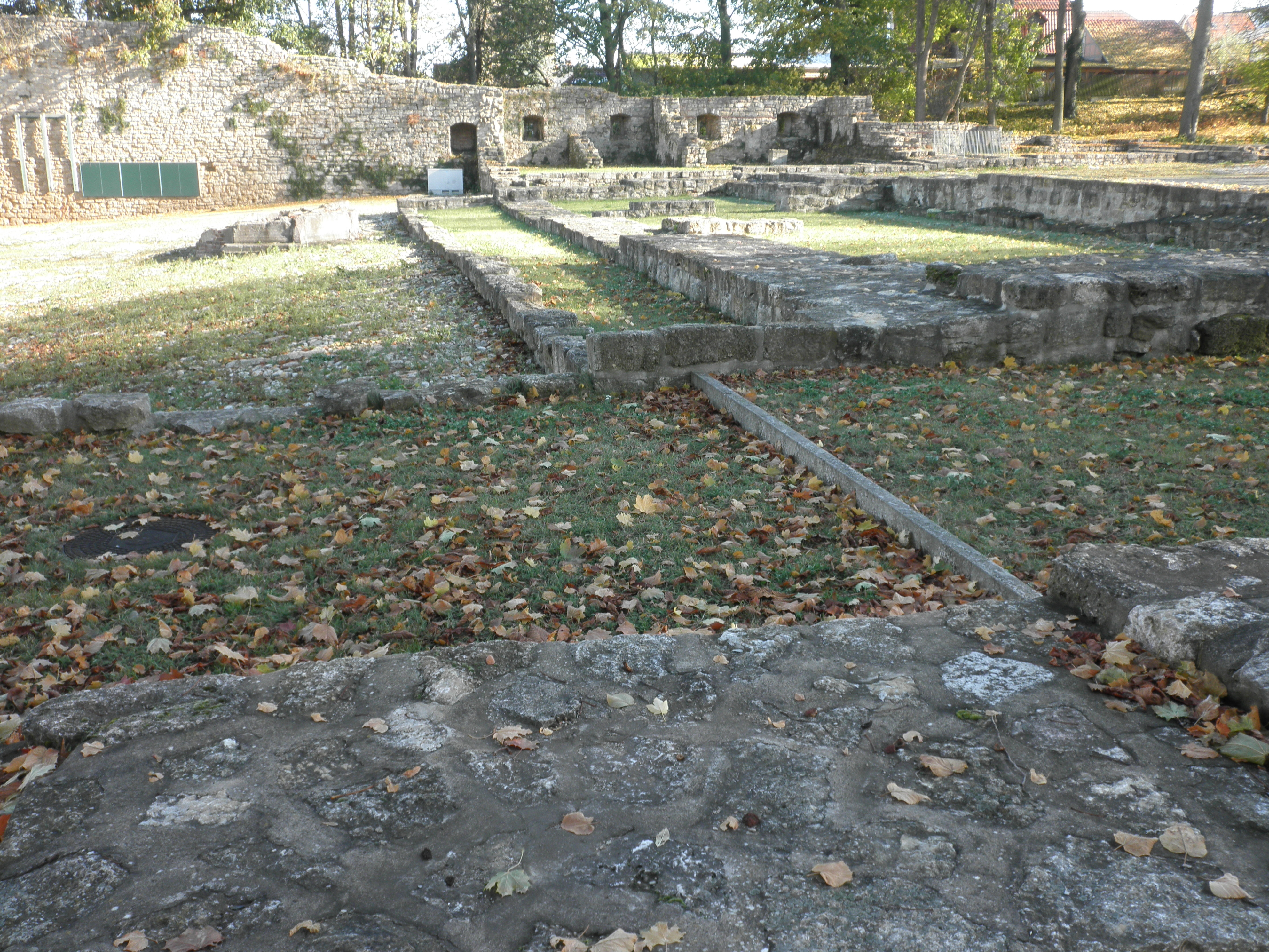 Foundations of the former castle in Ebeleben in Thuringia